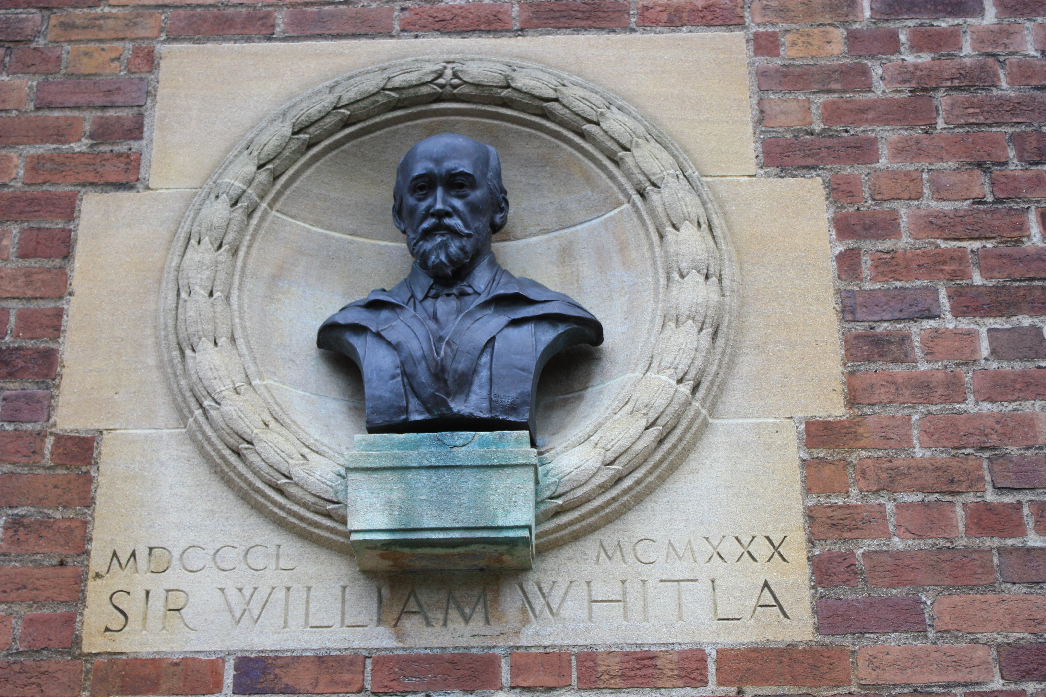 Bust of William Whitla, Whitla Hall, Queen's University Belfast, Belfast, Northern Ireland, October 2009